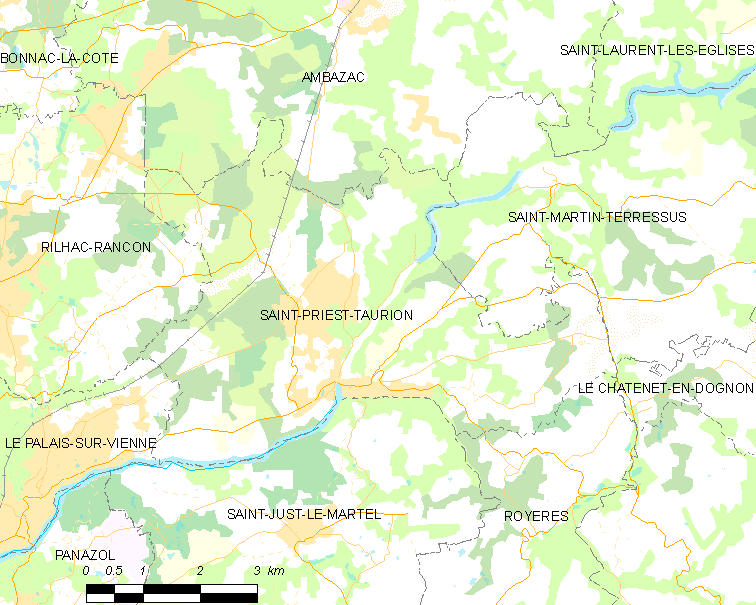 Map of French municipality Saint-Priest-Taurion